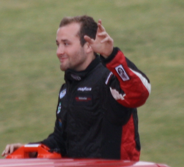 NASCAR driver Matt Frahm during driver's introductions at the 2012 Sargento 200 Nationwide Series race at Road America.